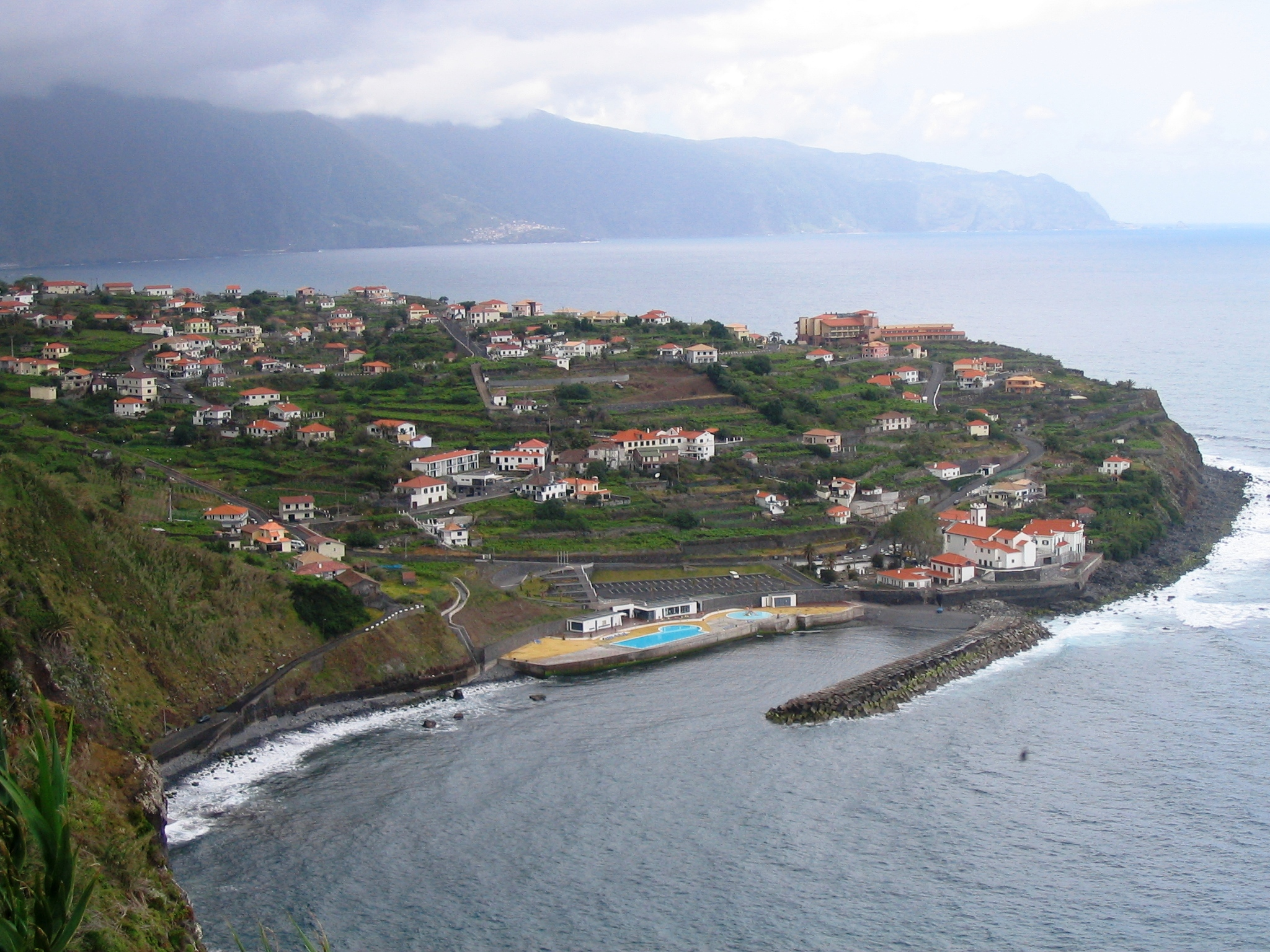 Ponta Delgada, São Vicente at 32°49′44″N 16°59′06″W / 32.829°N 16.985°W in Madeira, Portugal